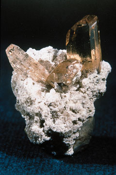 Topaz